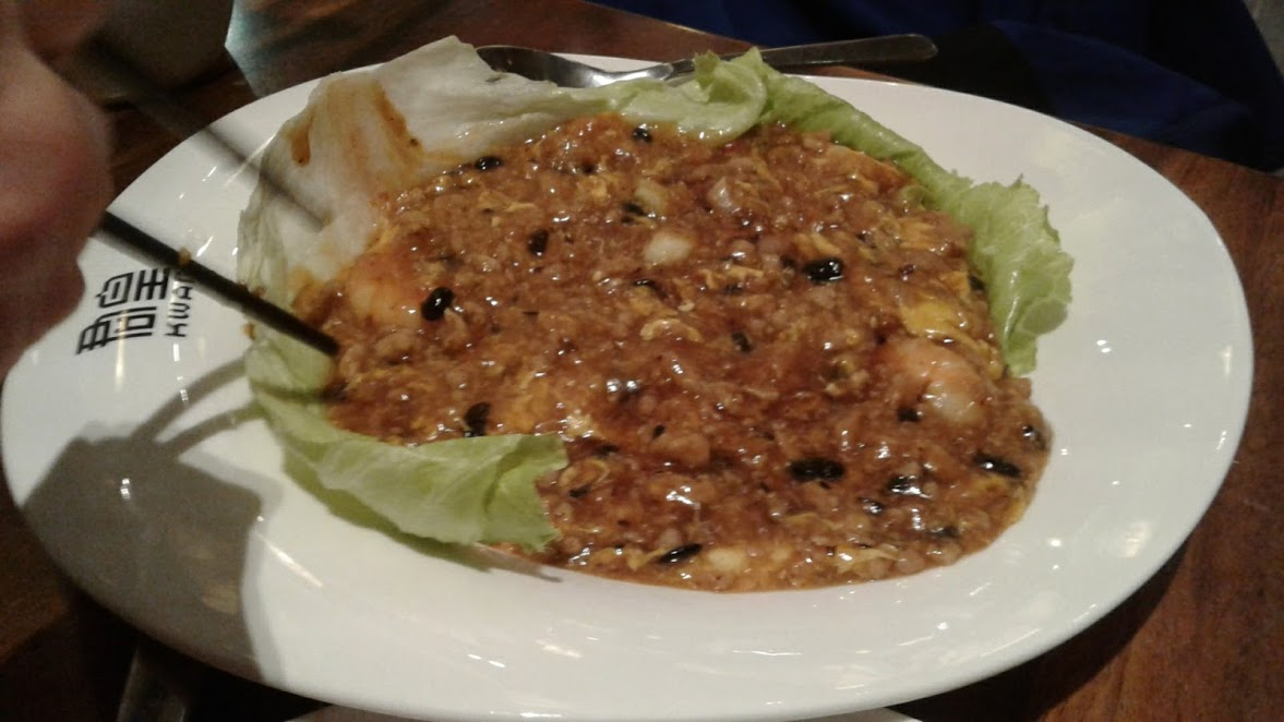 Shrimp with lobster sauce, a common Cantonese dinner dish with sauce poured over stir-fry lobster. Taken at a restaurant in Toronto, Canada.